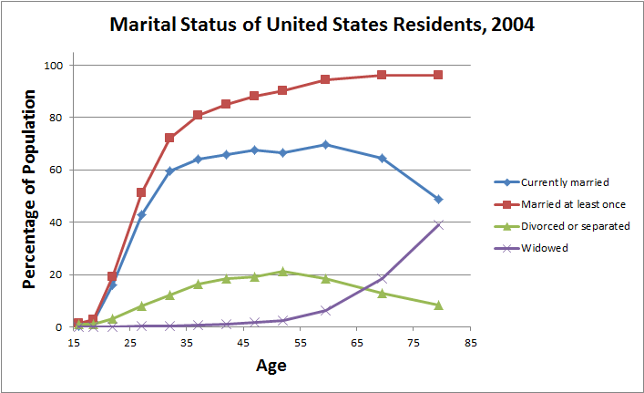 In 2004 the United States Census Burea conducted a Current Population Survey. Among other things, it surveyed whether US residents were married, divorced, separated, widowed, or never married. Their aggregated and categorized data was then released to the public in 2005.